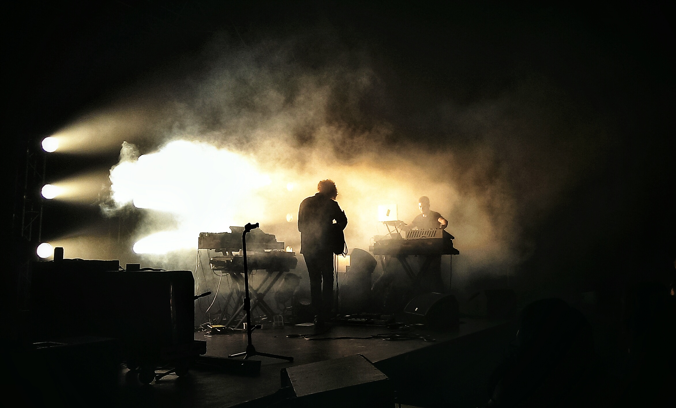 Darkside performing at The Ground Theatre at *SCAPE in Singapore on April 6, 2014